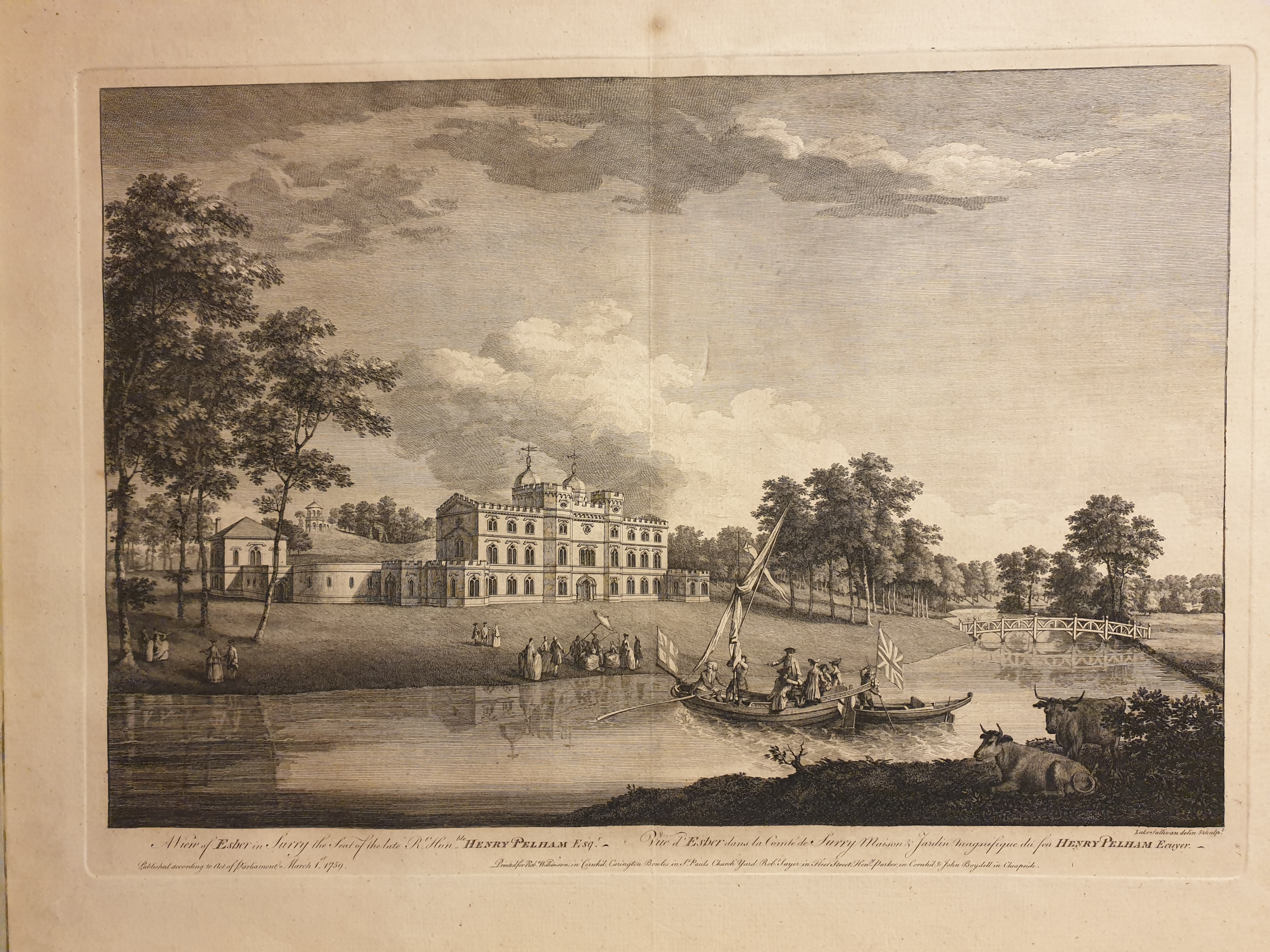 Engraving of 1759 showing the West side of Esher Place, Surrey, as earlier remodelled by William Kent.